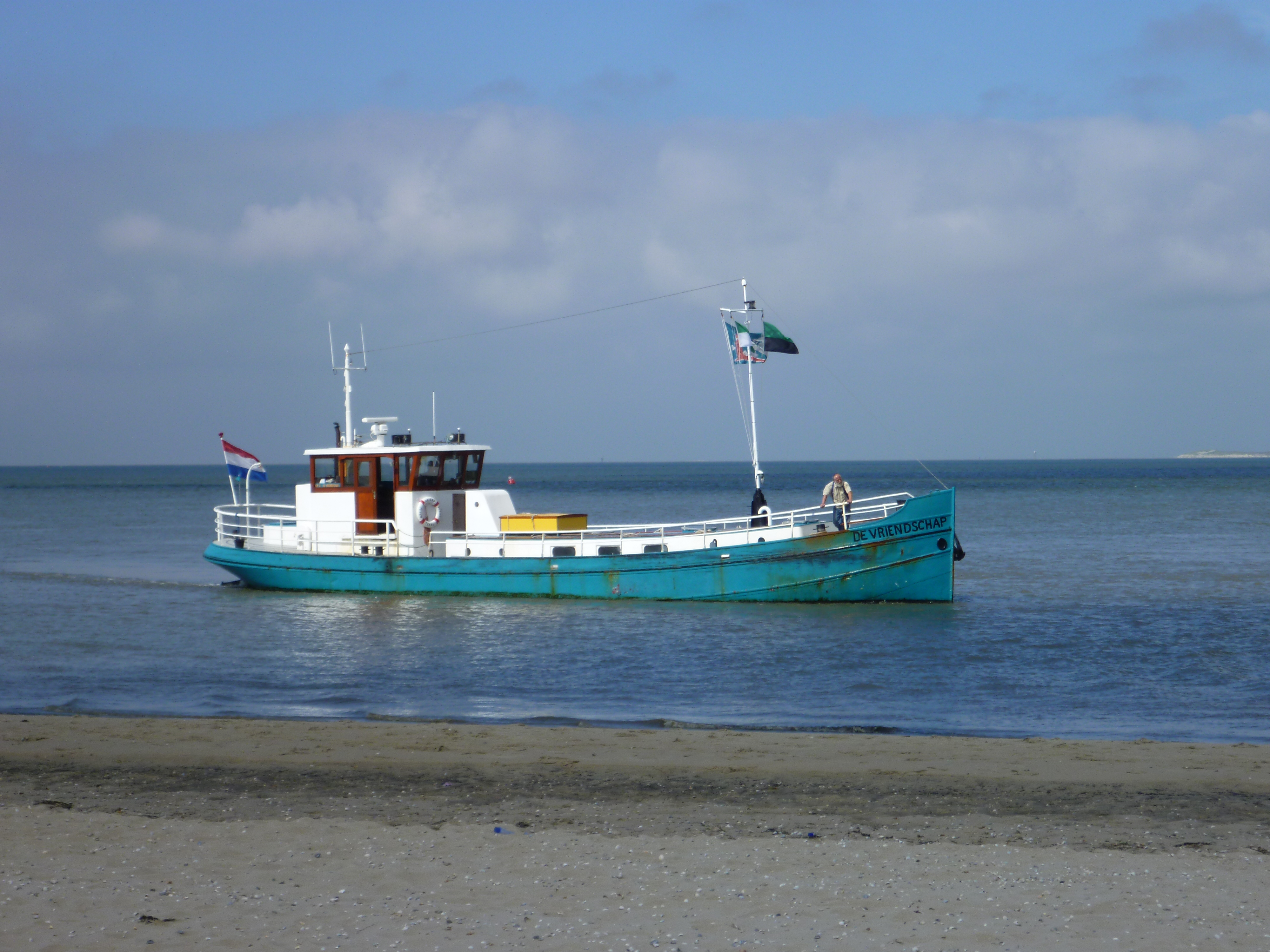 Little ferry "De Vriendschap" by the dutch island Texel